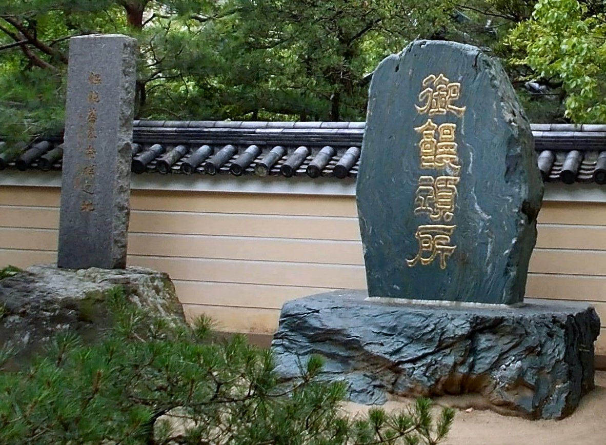 The Stone Monument commemorating the birth of Udon and Soba